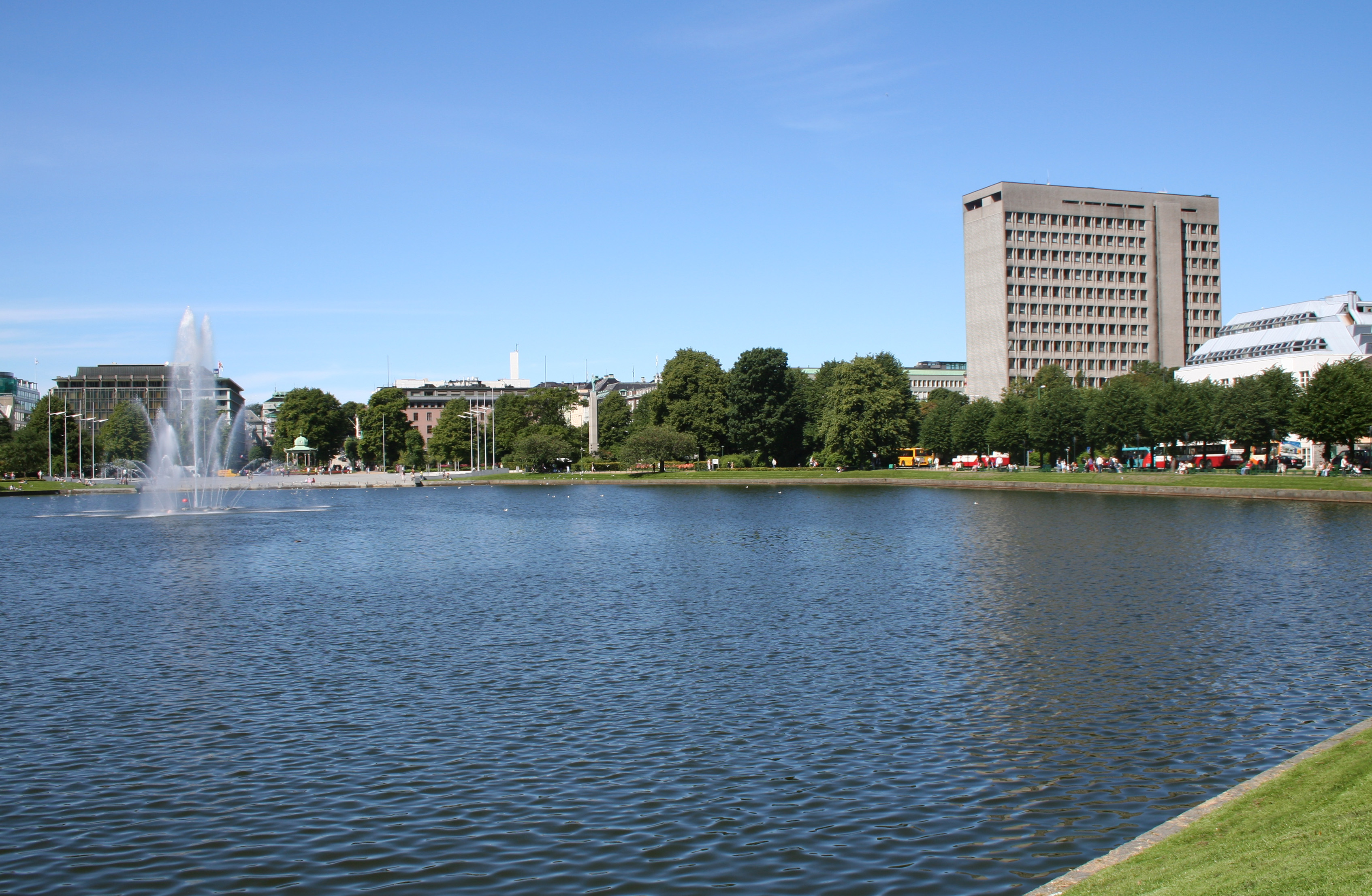 A view of Lille Lungegårdsvann in downtown Bergen, Norway on summer day. The large gray building on the right is Bergen city hall.